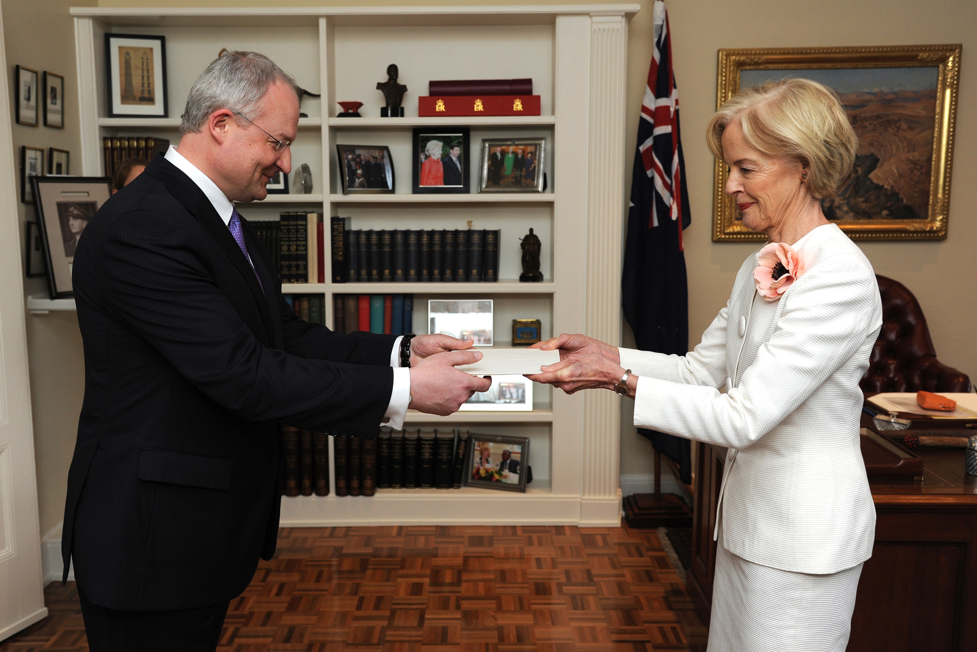 Estonian Ambassador H.E. Mr Andres Unga presents his credentials to the Governor-General of Australia H.E. Ms Quentin Alice Louise Bryce